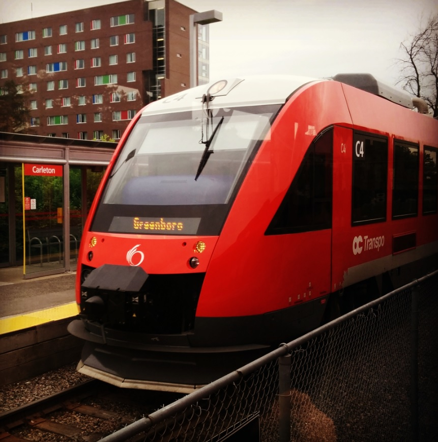 Alstom Coradia LINT O-Train